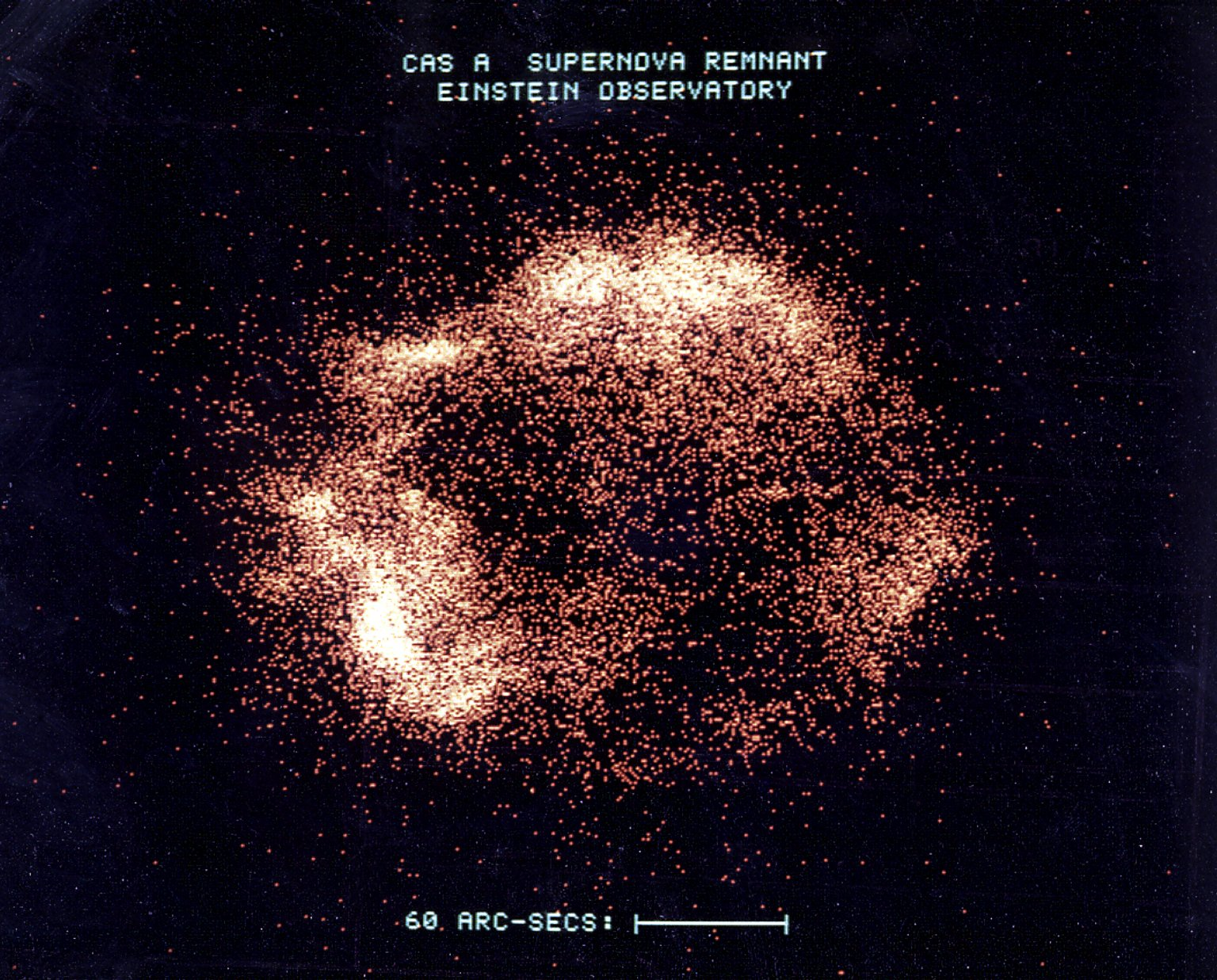 This x-ray photograph of the Supernova remnant Cassiopeia A, taken with the High Energy Astronomy Observatory (HEAO) 2/Einstein Observatory, shows that the regions with fast moving knots of material in the expanding shell are bright and clear. A faint x-ray halo, just outside the bright shell, is interpreted as a shock wave moving ahead of the expanding debris. The HEAO-2, the first imaging and largest x-ray telescope built to date, was capable of producing actual photographs of x-ray objects. Shortly after launch, the HEAO-2 was nicknamed the Einstein Observatory by its scientific experimenters in honor of the centernial of the birth of Albert Einstein, whose concepts of relativity and gravitation have influenced much of modern astrophysics, particularly x-ray astronomy. The HEAO-2, designed and developed by TRW, Inc. under the project management of the Marshall Space Flight Center, was launched aboard an Atlas/Centaur launch vehicle on November 13, 1978.